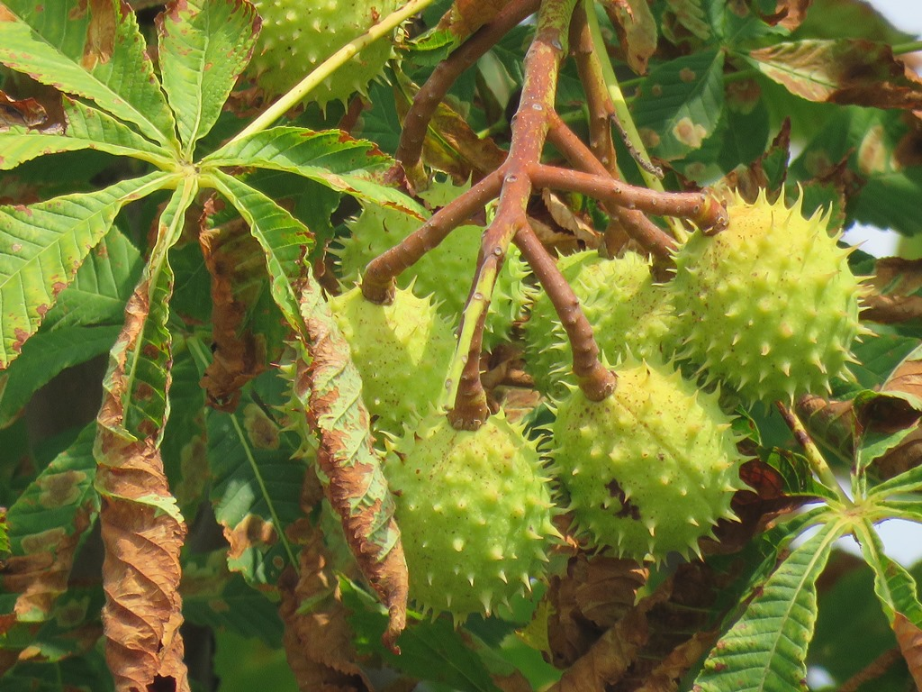 Biljke parkova u Nišu